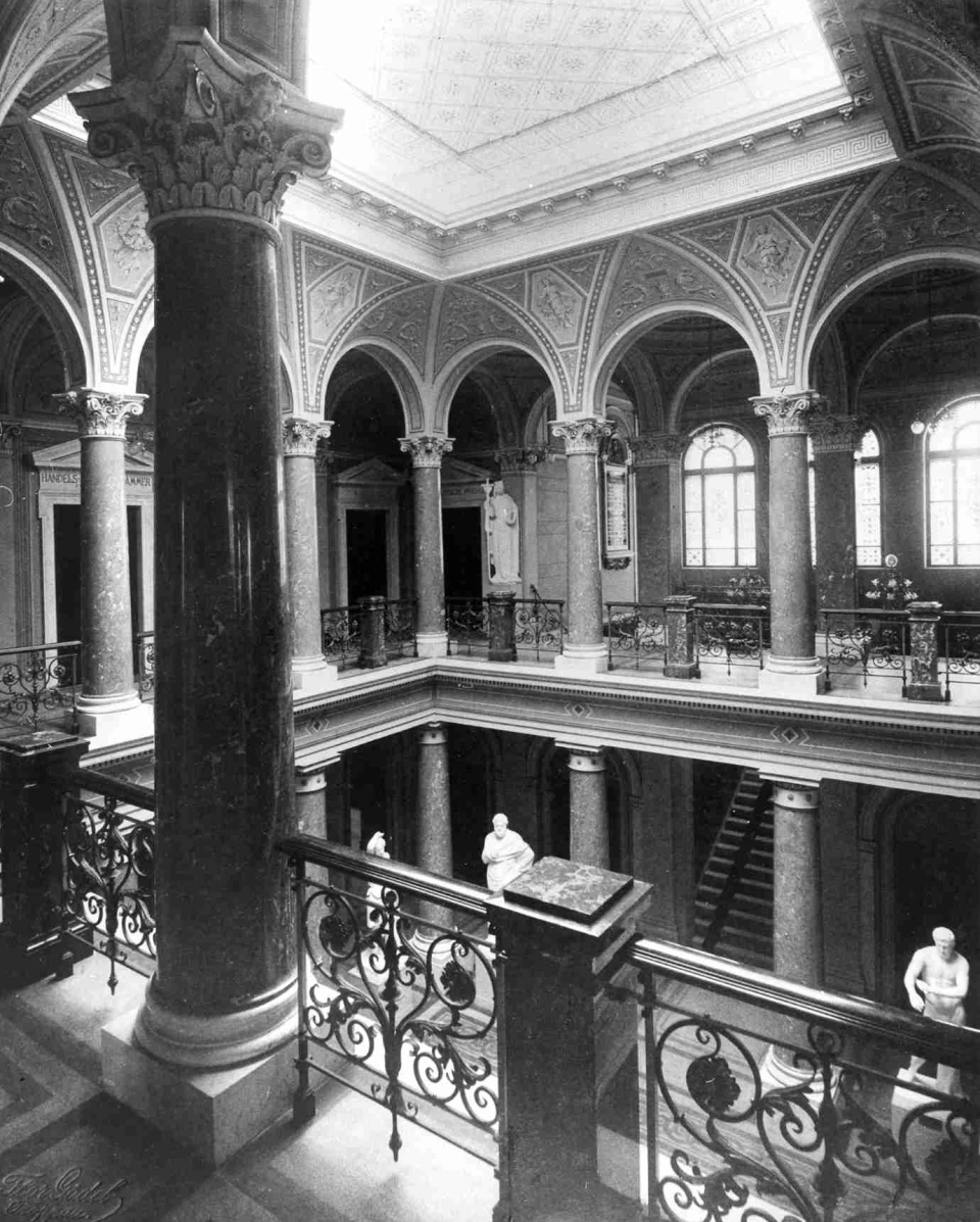 Silesian museum 8